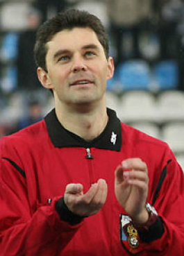 Alexei Nikolaev in match between FC Shinnik and FC Zenit St. Petersburg